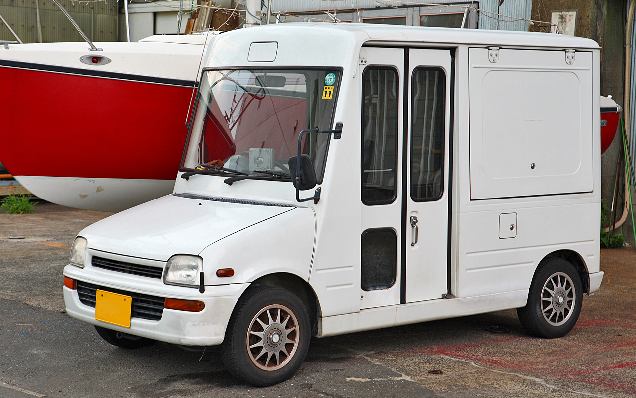 Walk-through Van of the third generation Daihatsu Mira.